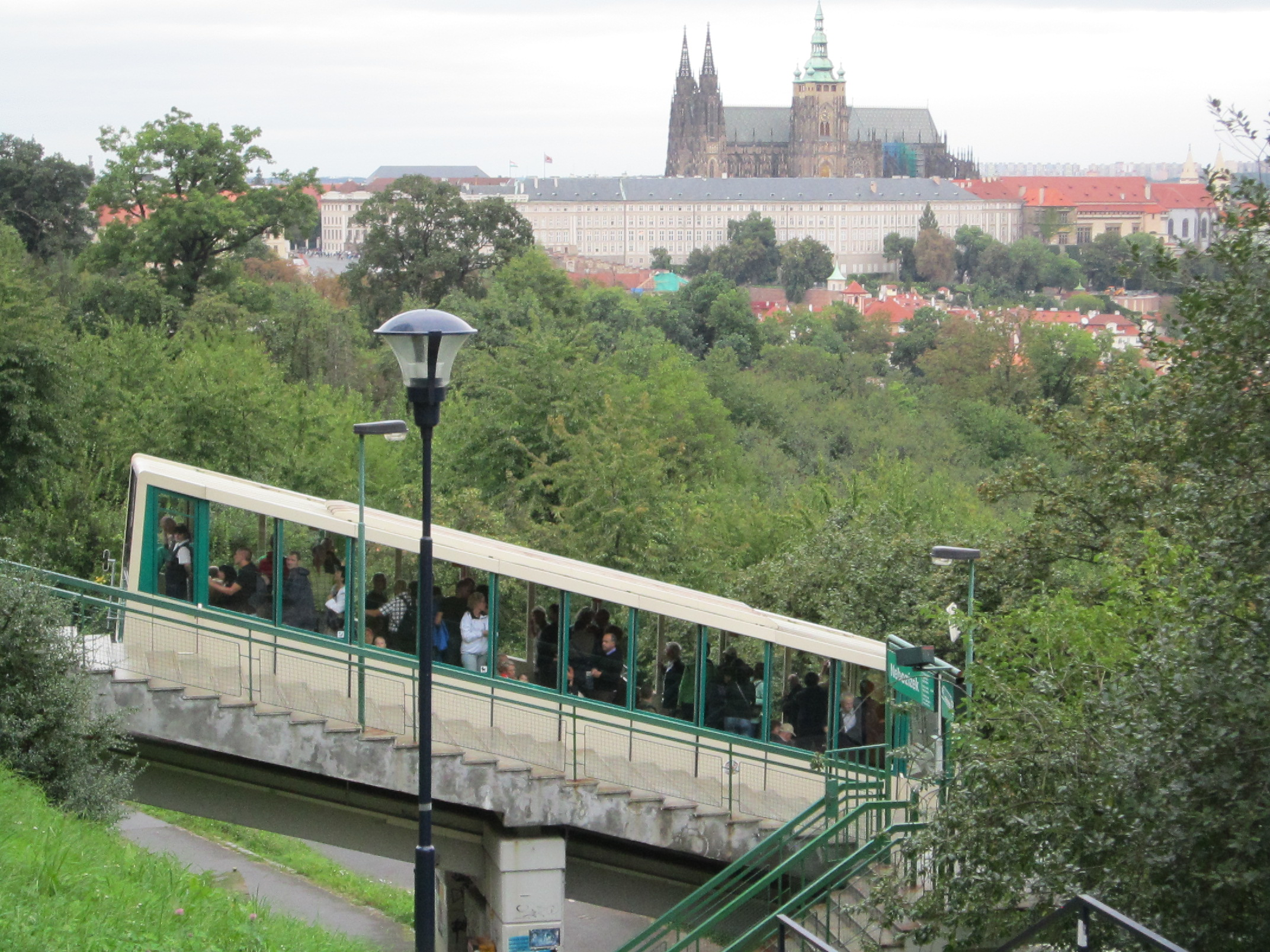 Middle Station of the Petřín funicular in Prague with a view to the Hradcany